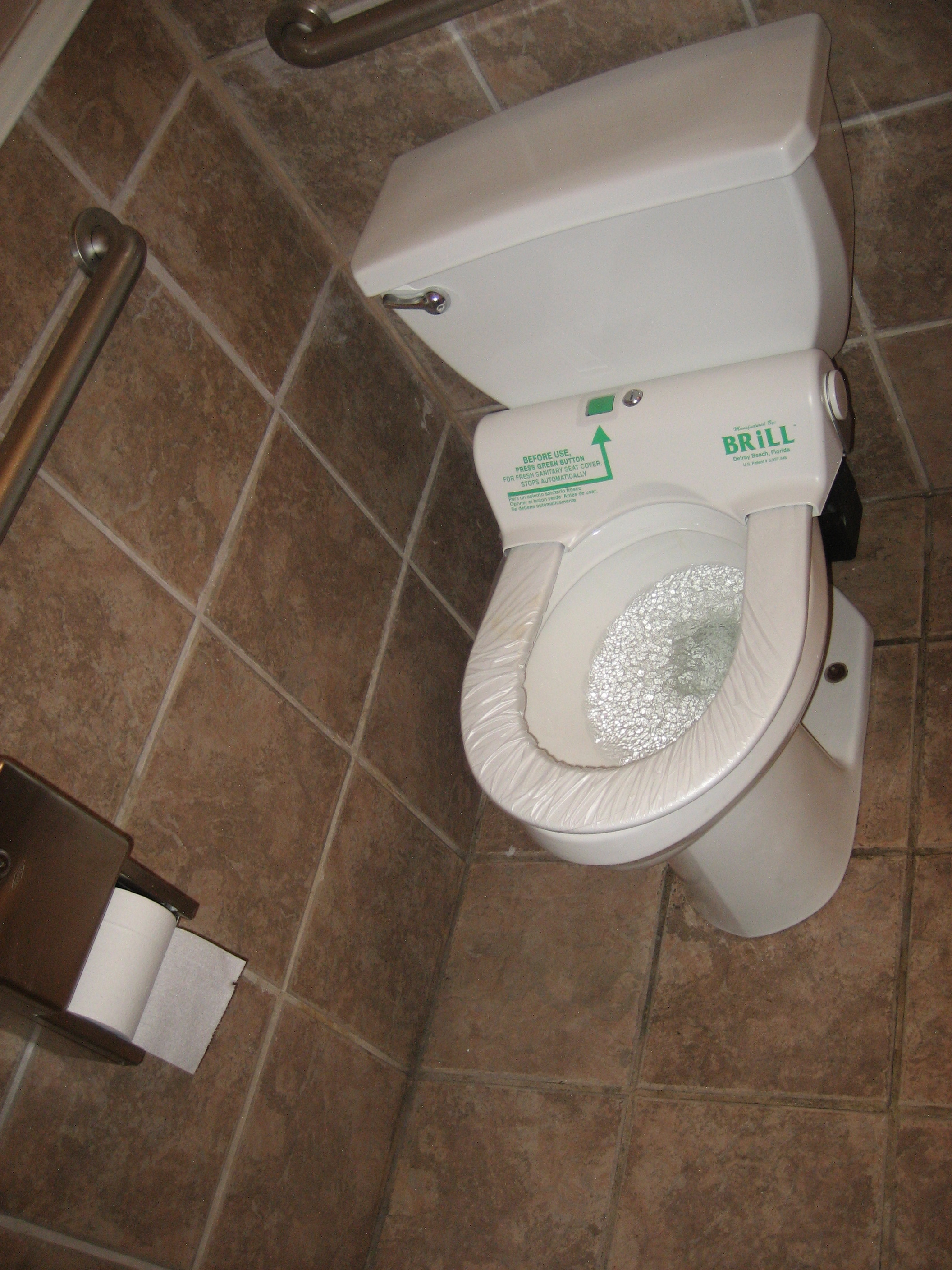 Toilet in restaurant, with device that moves a sanity plastic seat cover between uses. (Photographed in Mid-City New Orleans)